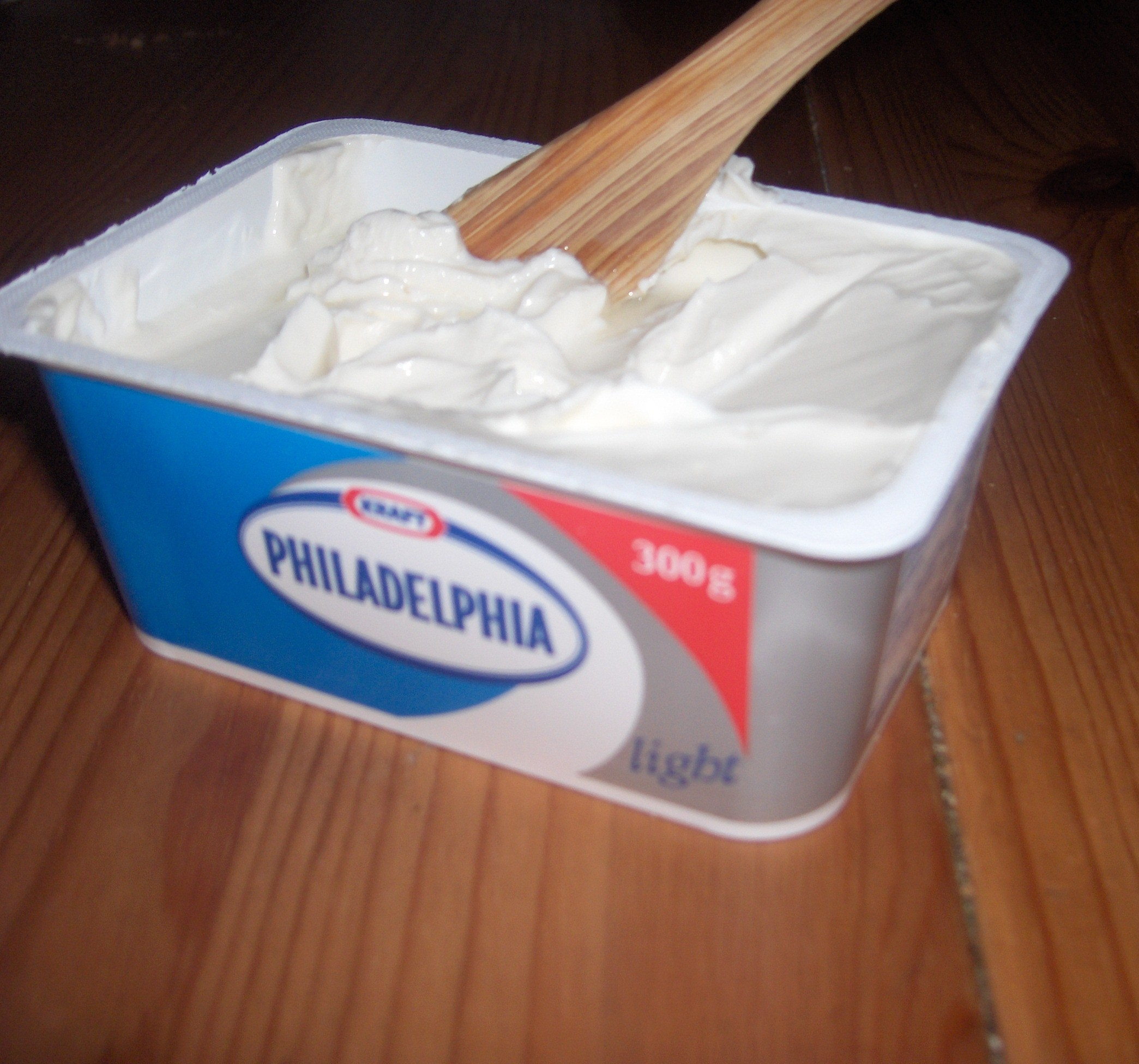 Philadelphia cream cheese. Photographed and edited in PhotoFiltre by me in winter 2008.